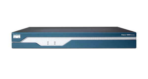 Photo supplied by Cisco Systems Inc. of a 1800 Series Router.